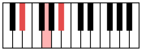 e-flat maj chord